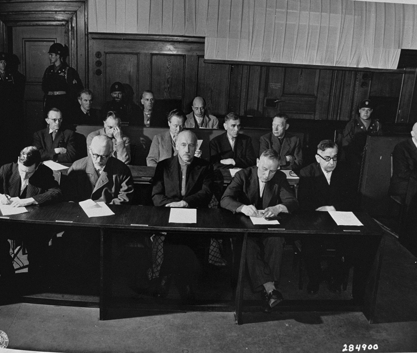 Not in the main courtroom, elsewhere in Palace of Justice